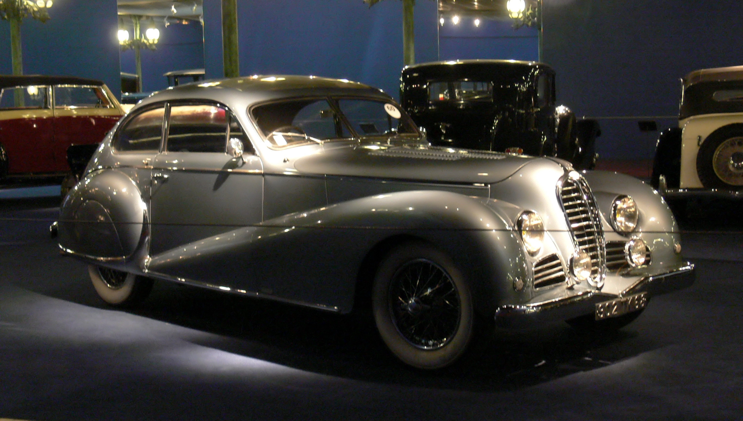 Delahaye Coach 135M by Antem in the Musée National de l'Automobile (Mulhouse)